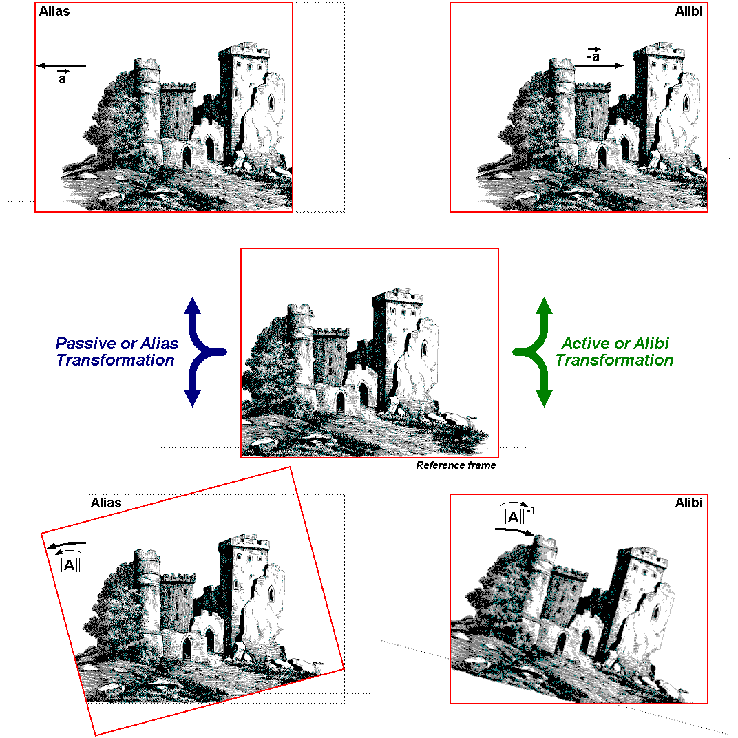 Comparison of alias and alibi transformations on the example of a translation and rotation